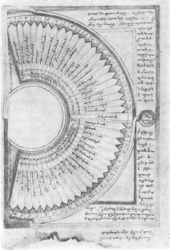 Zoranamak